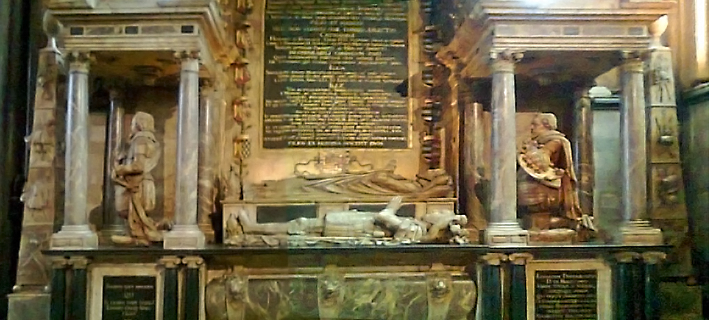 Tomb of Catherine Grey and her husband Edward Seymour, 1st Earl of Hertford, in the cathedral of Salisbury.